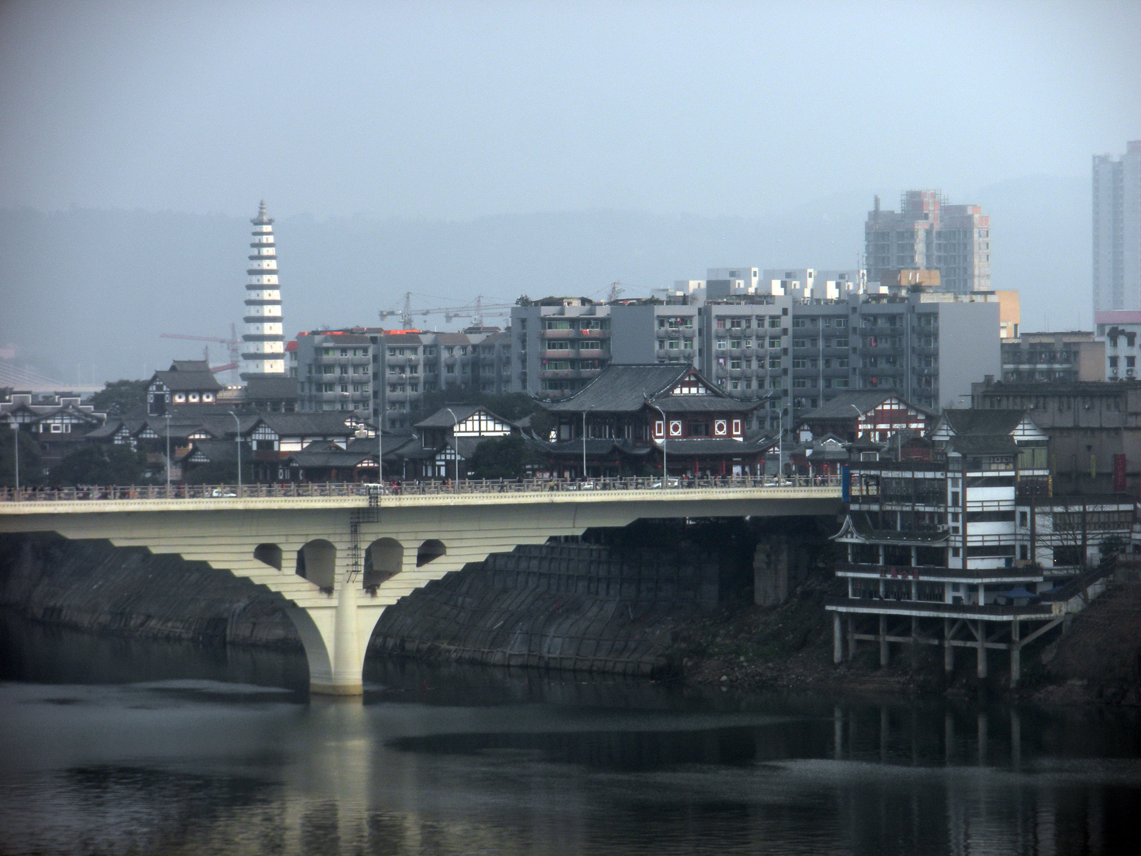 The city view of Nanjinjie，Hechuan Distruct.The photo has been taken by Prof.Chen Hualin.